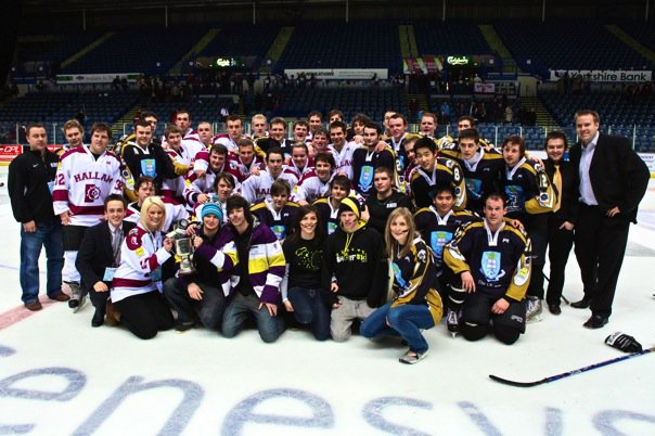 The Two university teams after the Varsity game 2010